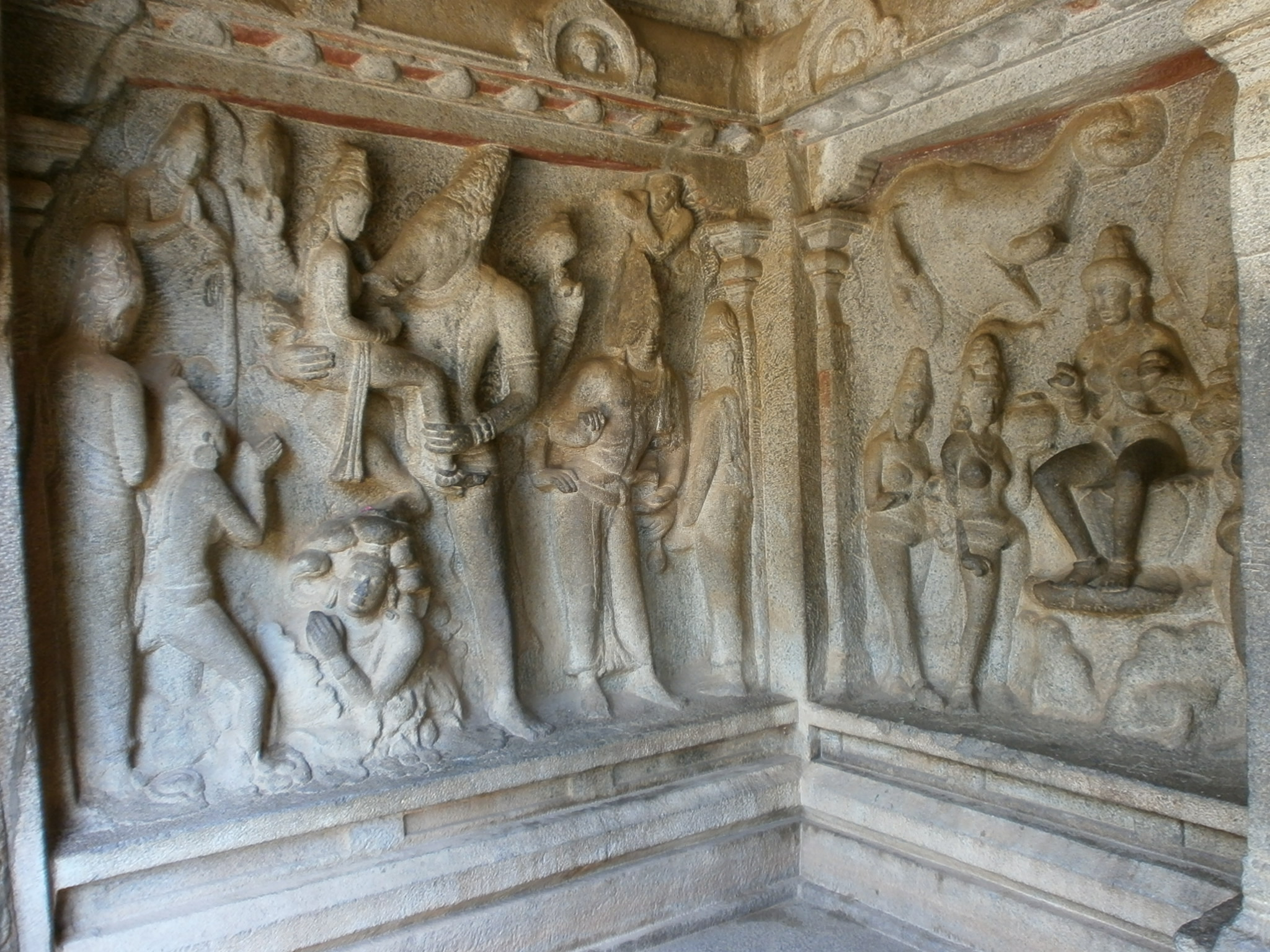 Varaha-Caves-Mahabalipuram-2